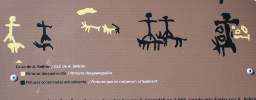 Calco pinturas rupestres de la Fenellosa